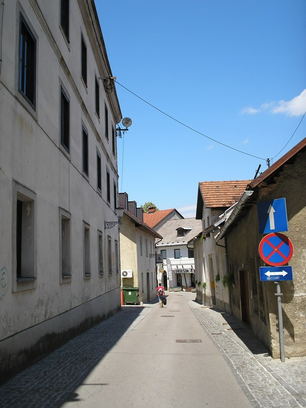 Detel Street